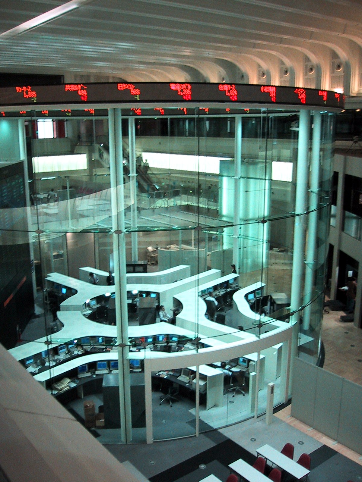 The Tokyo Stock Exchange. This is the main room. The stocks were traded here while the trading was done by humans, but nowadays all trading is done by computer.